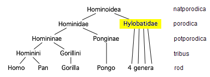 Hominoid taxonomy, diagram 7 (c. 2005, following Groves' splitting of Hylobates into 4 genera). Hylobatidae highlighted.